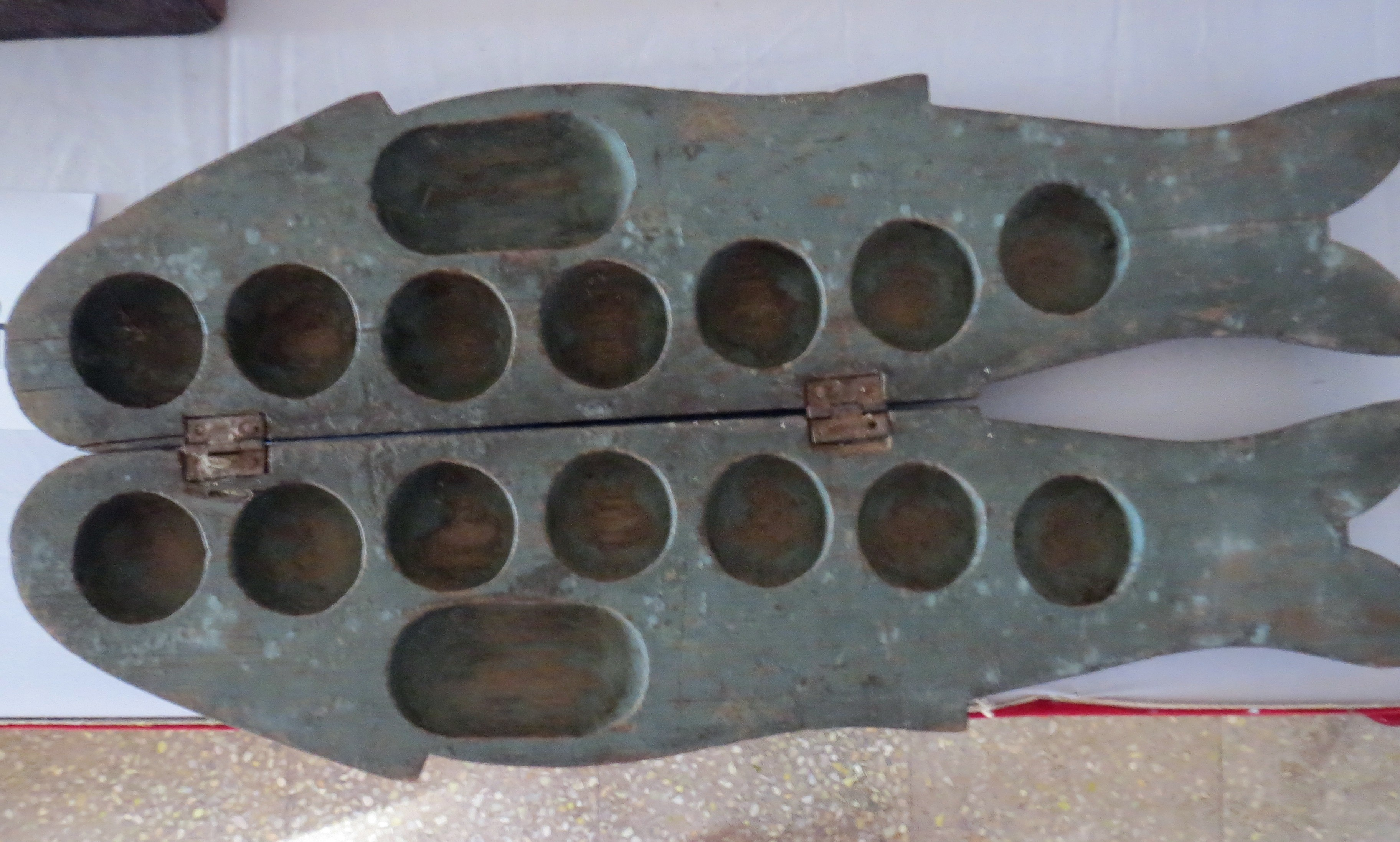 This fish shaped wooden piece is used to play a indoor game called 'pallanguzhi' in Tamil nadu